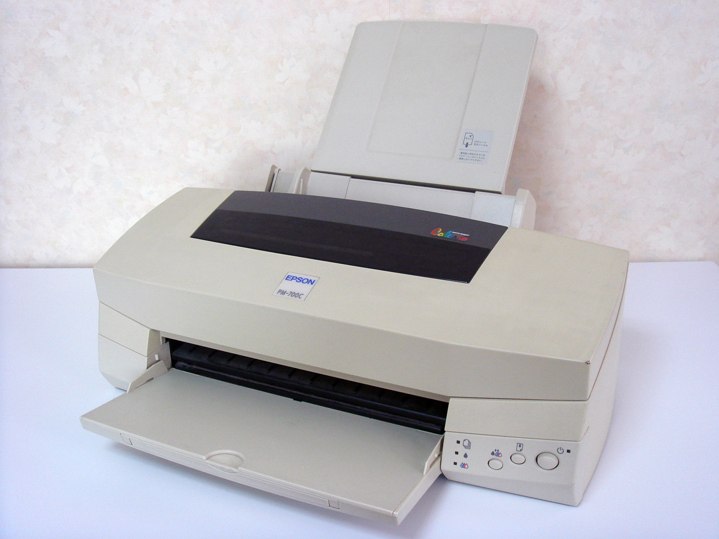 EPSON Colorio Inkjet Printer PM-700C